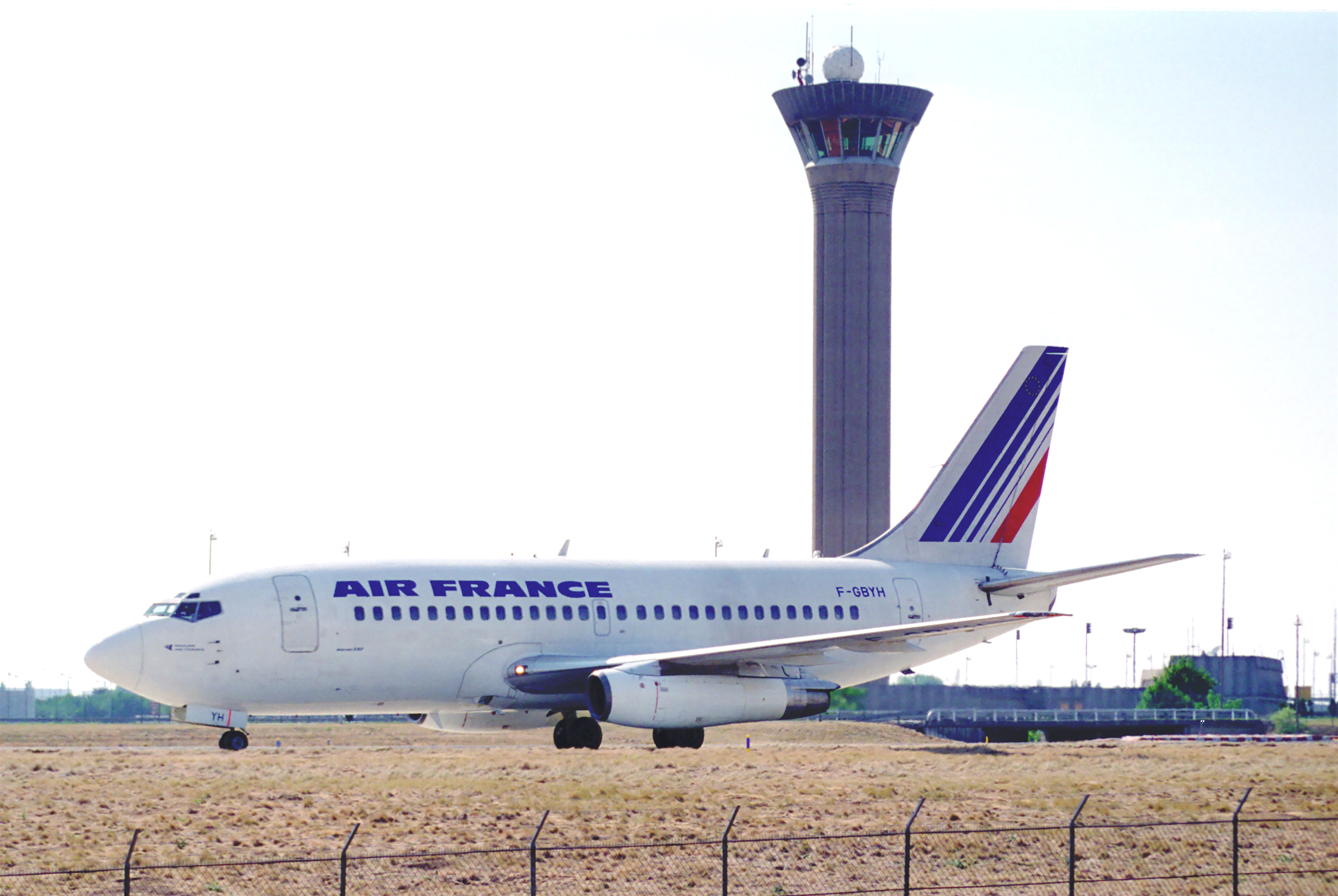 This Boeing 737-228 took its first flight on February 25, 1983...(c/n 23007/ 948) 10/03/1983 Air France F-GBYH 15/12/1998 FSB N237TR 22/09/1999 Frontier Airlines N237TR withdrawn from use 03/2003 and stored DAL 11/06/2003 Pace Airlines N237TR - stored 03/2006 01/09/2006 Merpati PK-MBZ stored 10/2008